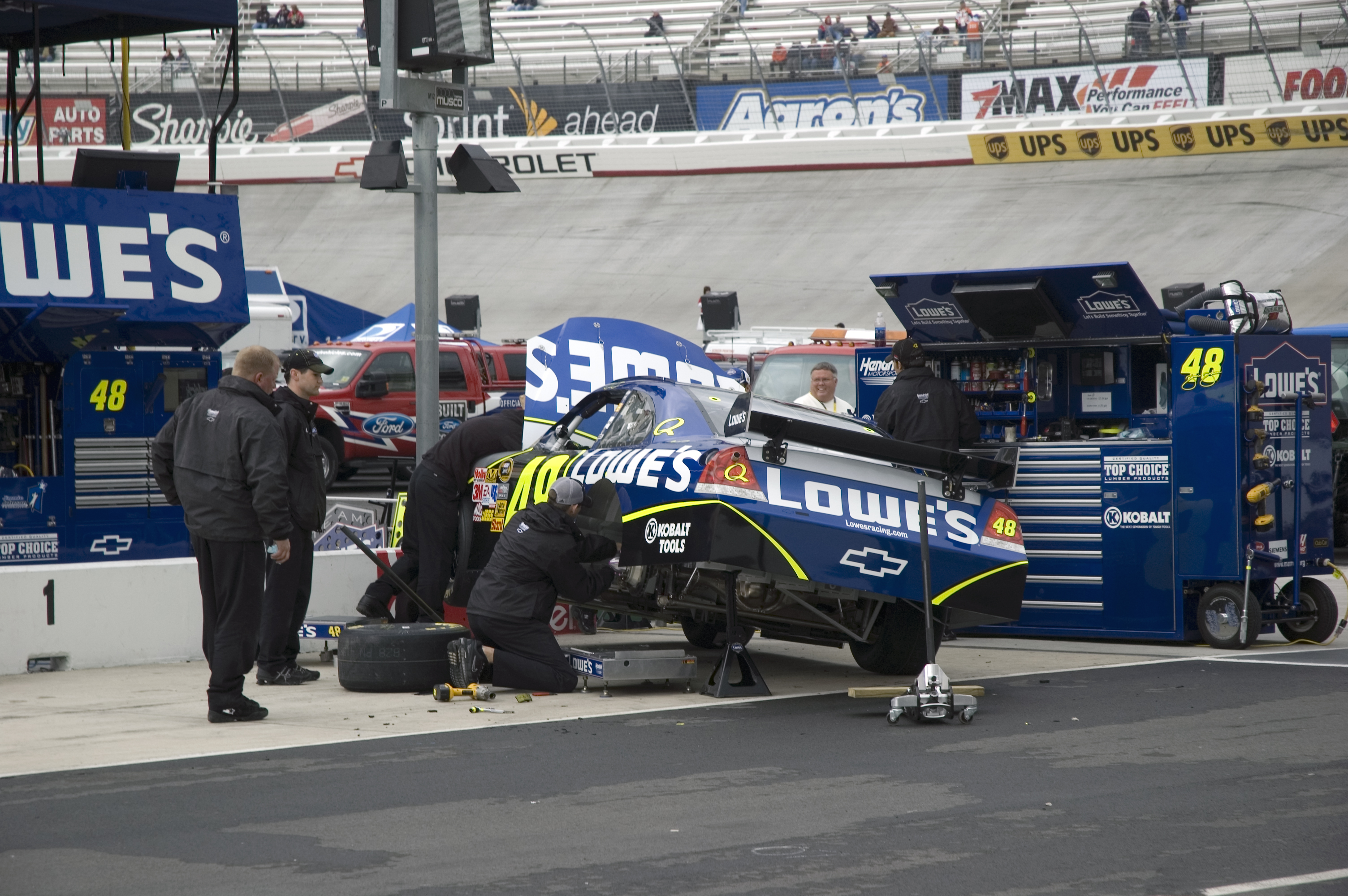 Jimmie Johnsons team working on his car at Bristol Motor Speedway in 2008.